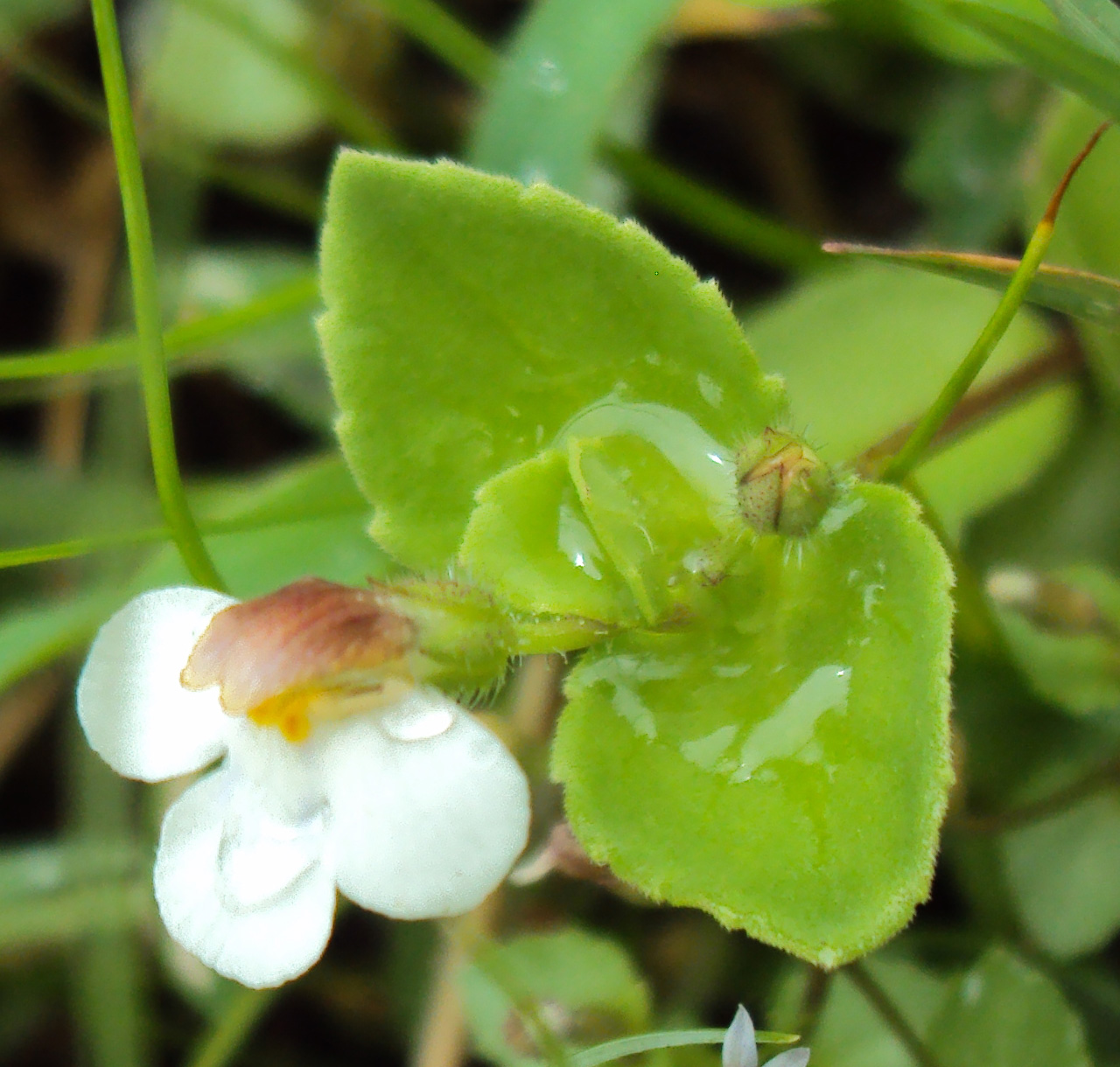 Lindernia nummulariifolia